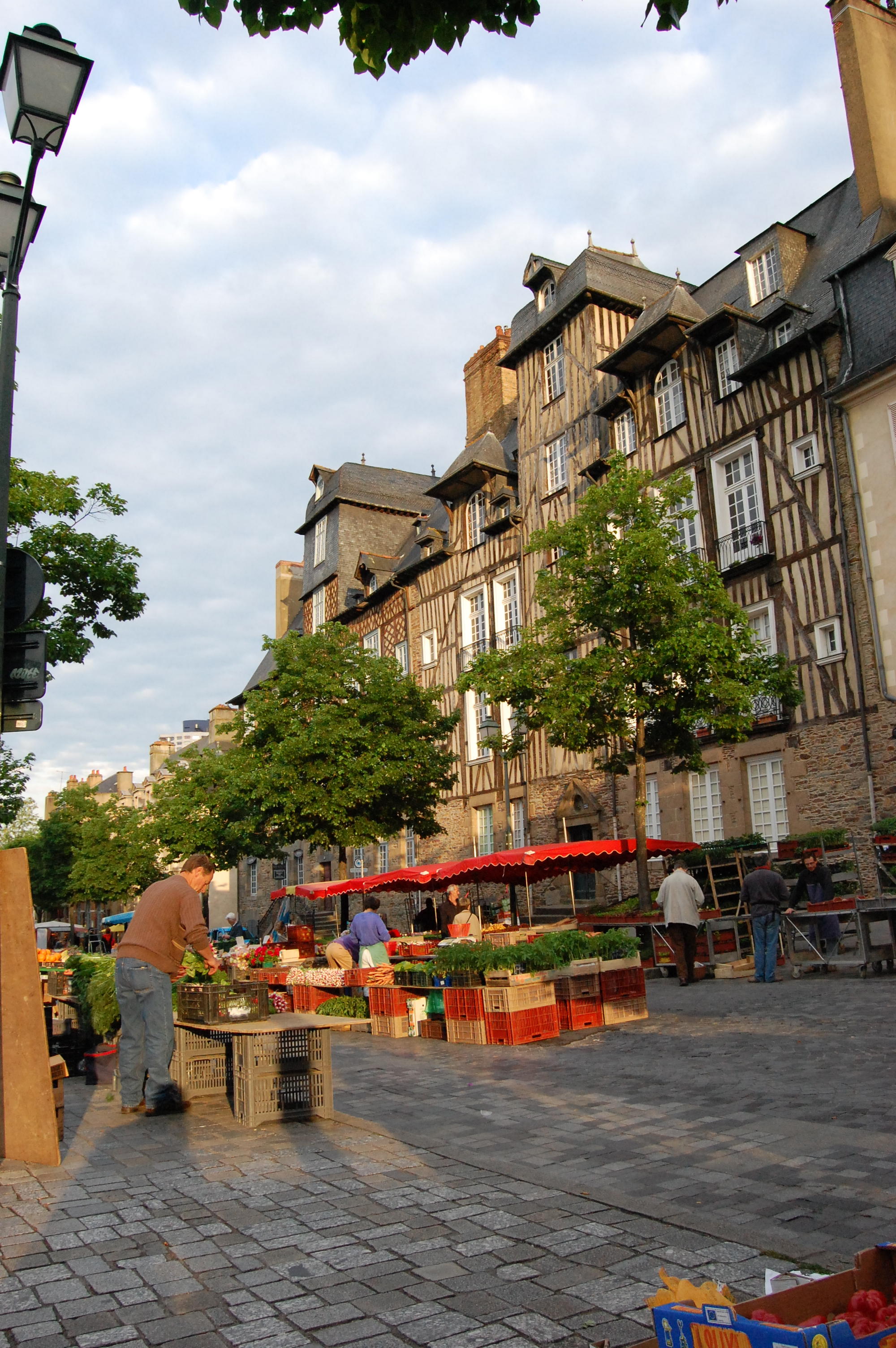 Implementation of the Marché des Lices in Rennes. In the background, the two timber framing heritage buildings named "hôtel Racapé-de-La-Feuillée" and "hôtel de La Noue".